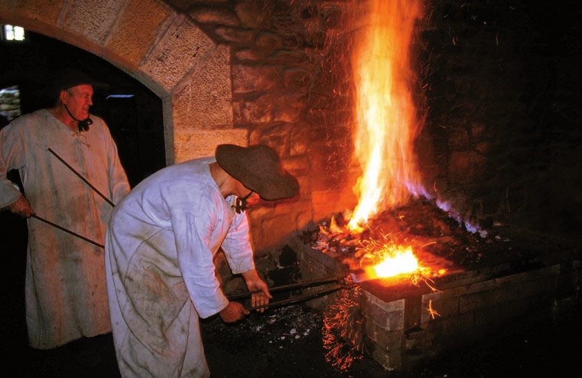 Finery forge